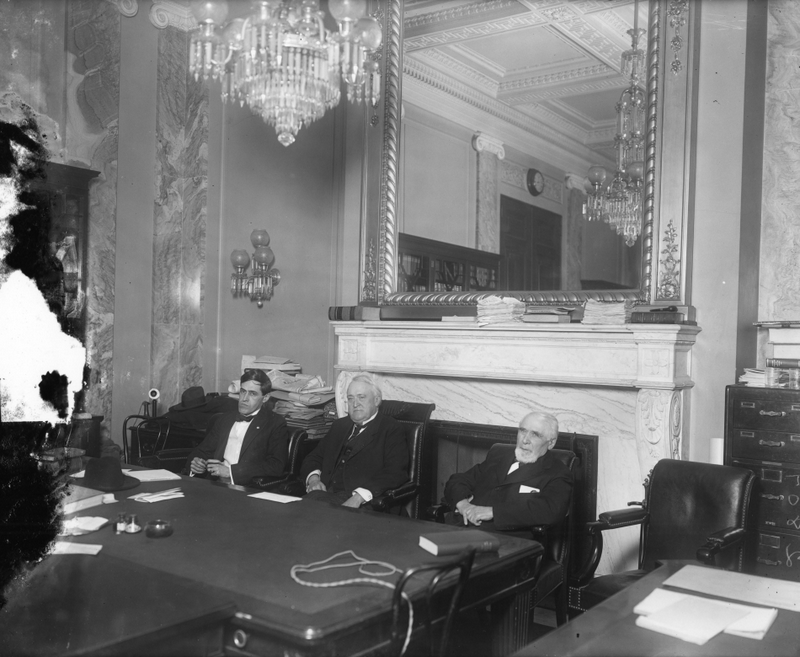 The Overman Committee. Pictured left to right: Senator Josiah Oliver Wolcott (D-Del.), Chairman Lee S. Overman (D-N.C.), Senator Knute Nelson (R-Minn.).